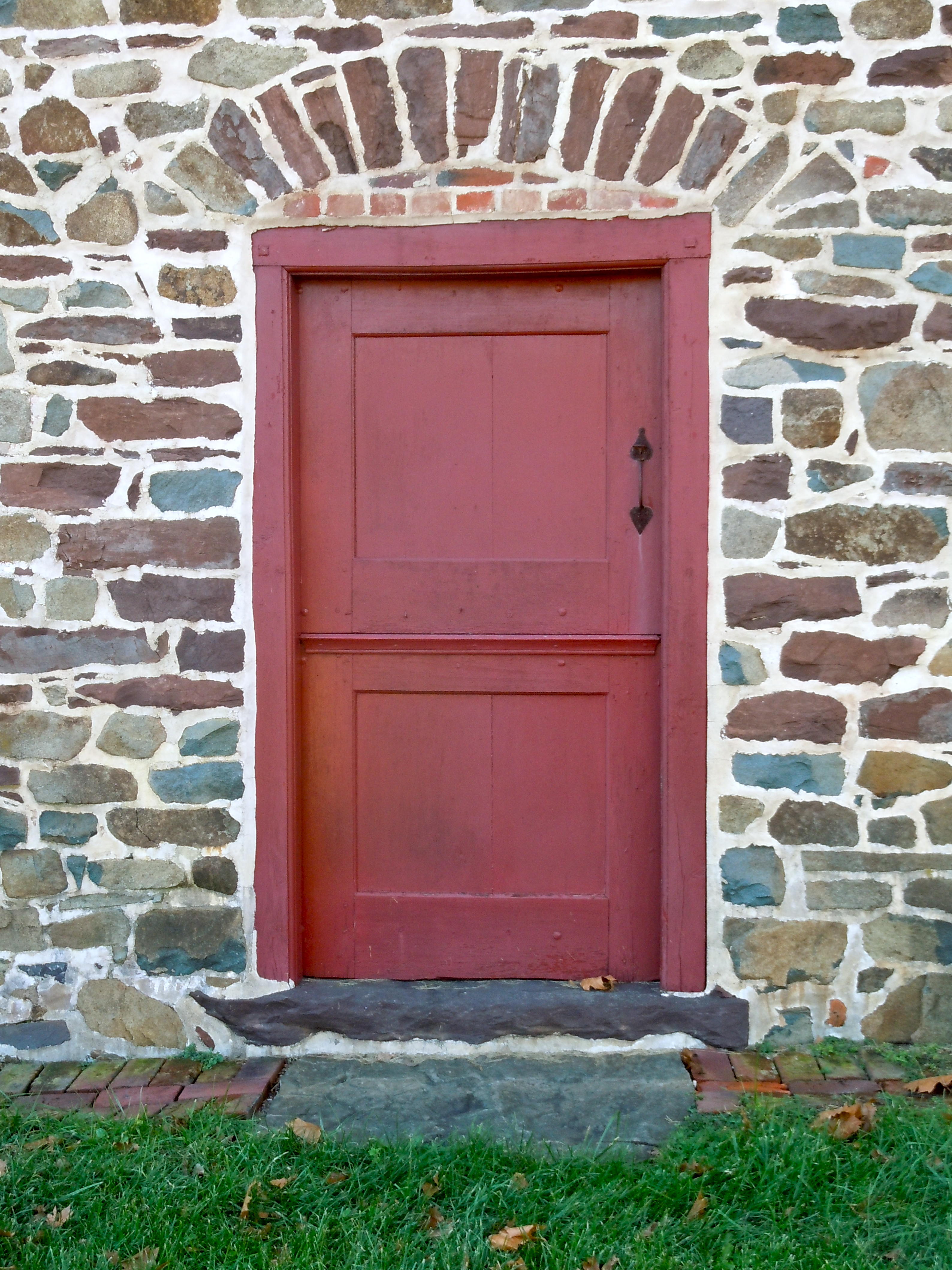 Dutch door at Henry Antes House on the NRHP since May 12, 1975. Also a National Historic Landmark. Northeast of Pottstown on Colonial Road, Pottstown, Montgomery County, Pennsylvania